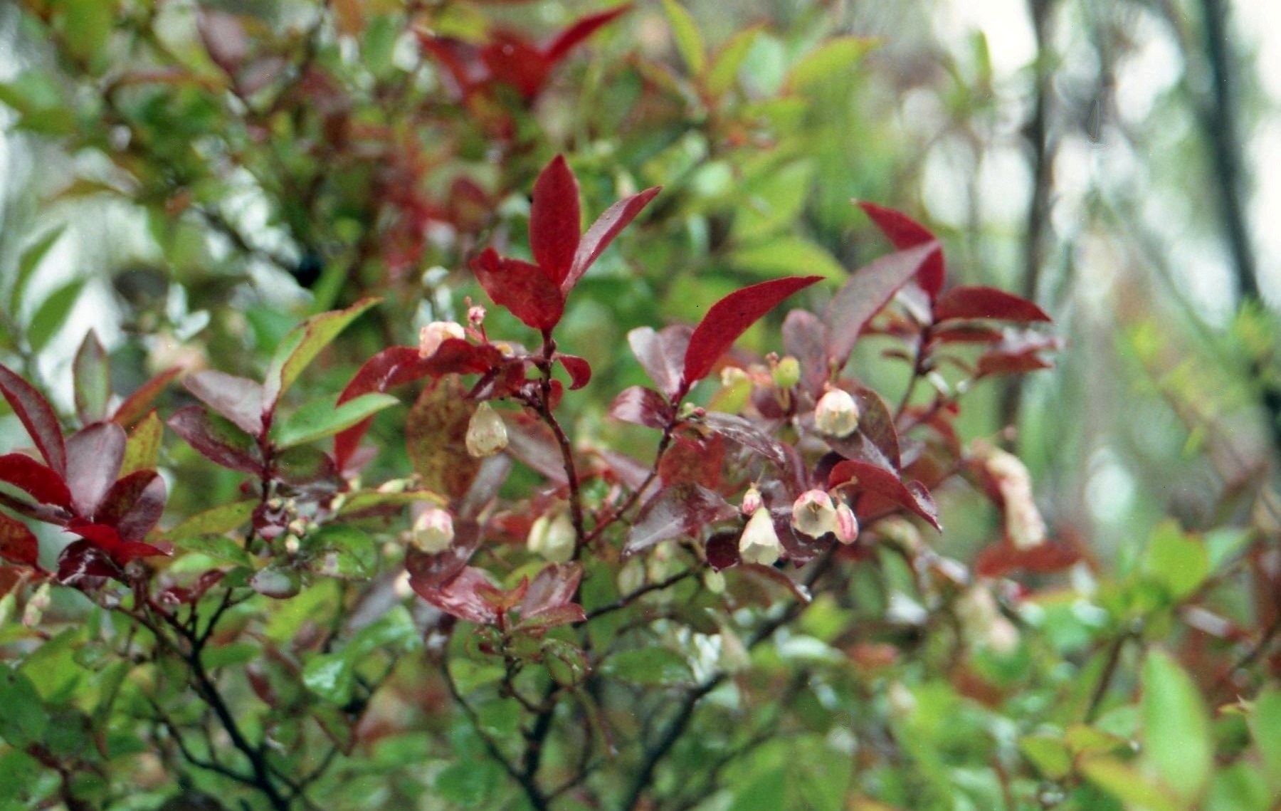 Vaccinium padifolium, flowers, Encumeada mountain plain.